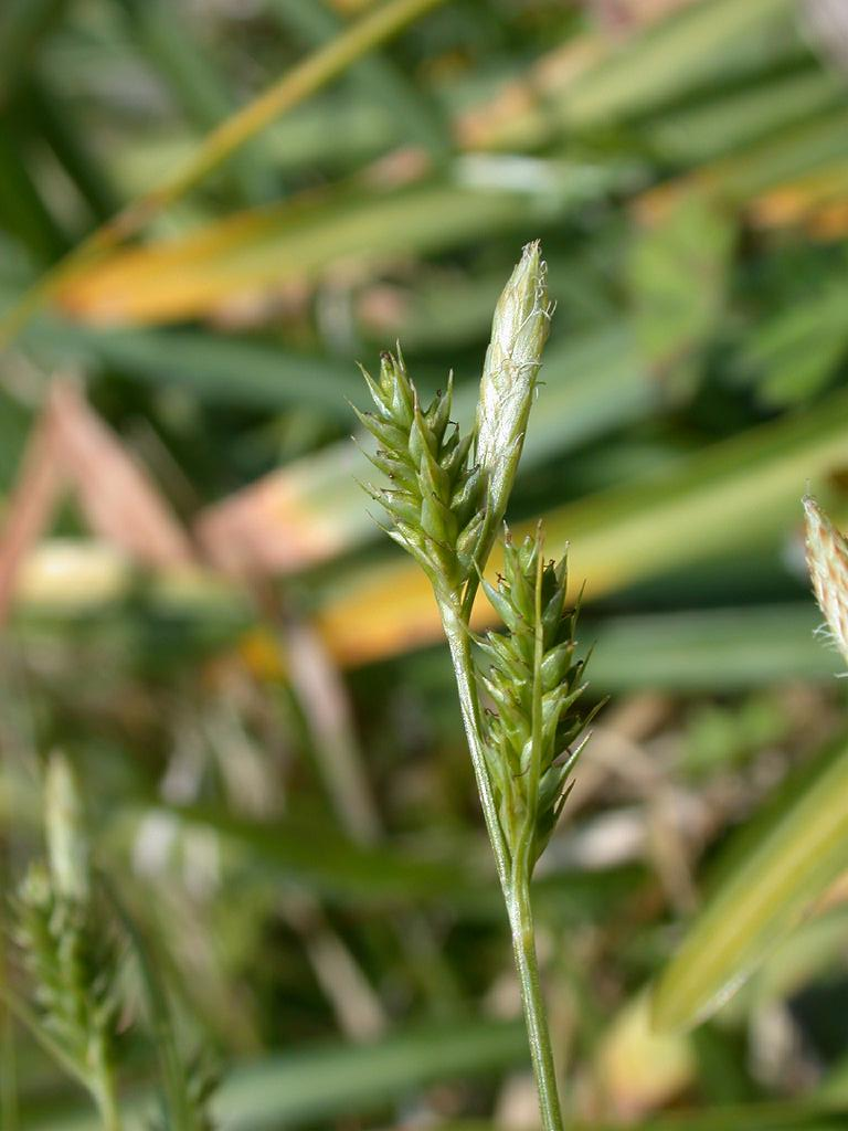 Carex leucochlora (Cyperaceae) Japanese name;Aosuge date:2007.04.12:roadside,Tanabe city,Wakayama pref.Japan Author;Keisotyo